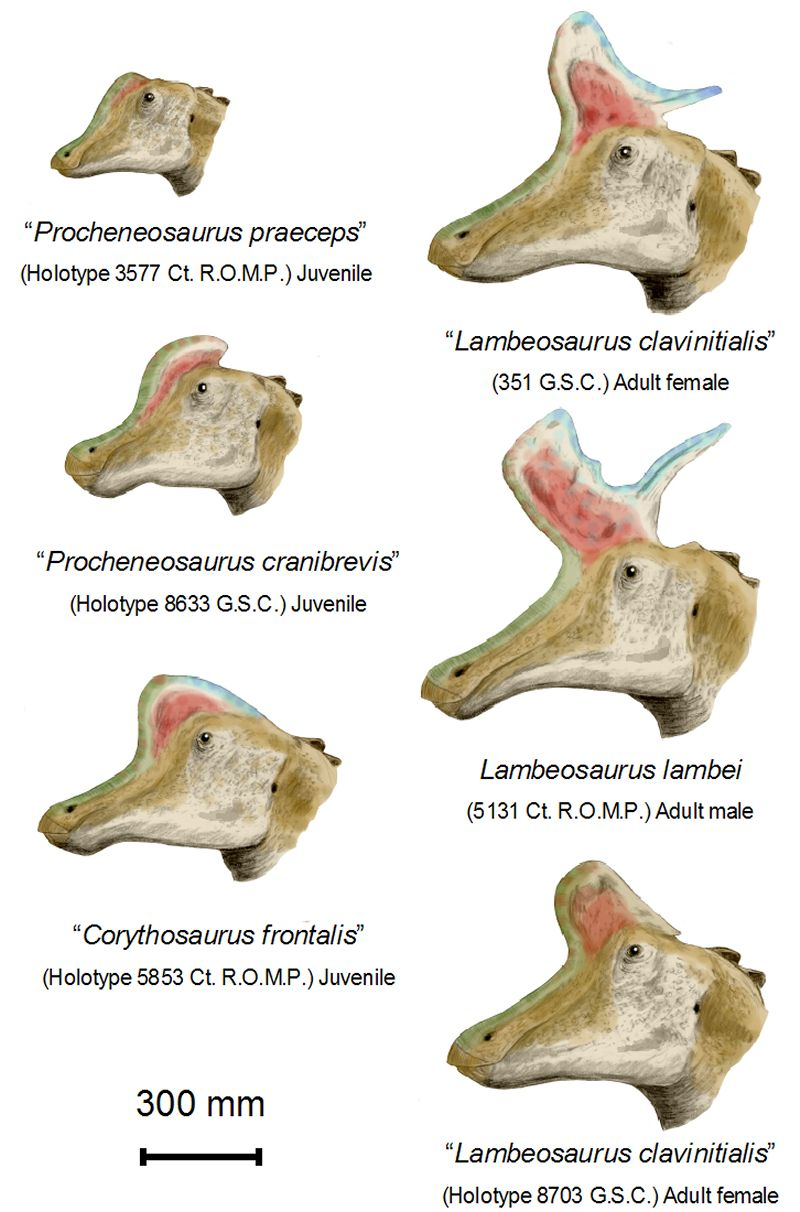 Headshots of Lambeosaurus lambei for what is believed to be different genders and different growth stages. Based on skull drawings by Lull and Wright, 1942. Pencil drawing. For updated versions, see File:Lambeosaurus BW.jpg and File:Lambeosaurus lambei BW (updated).jpg.